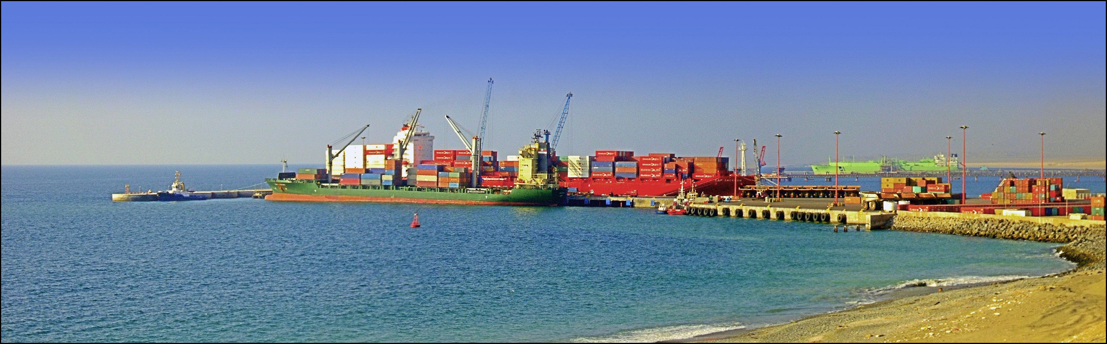 Puerto Angamos, Chile.